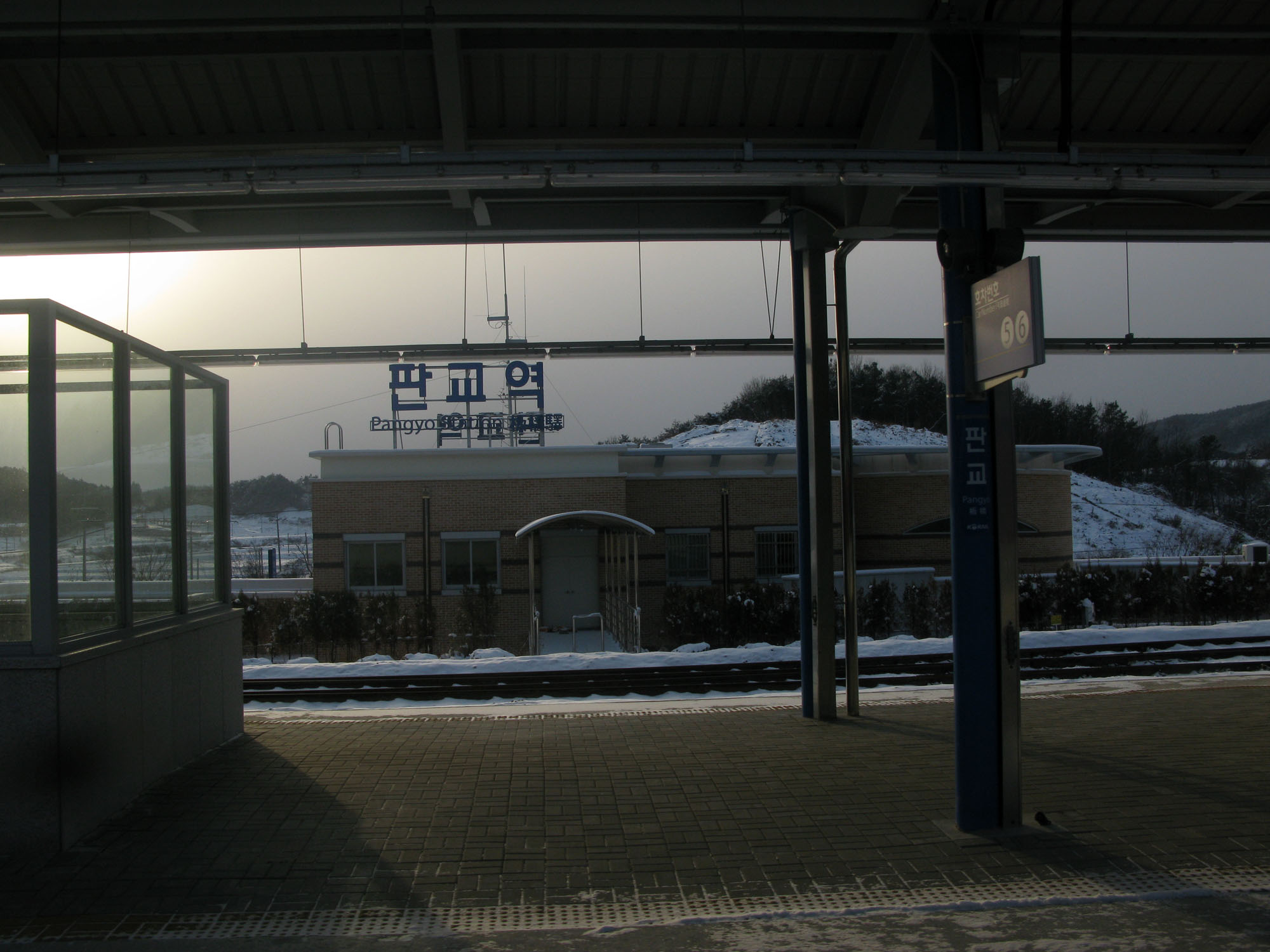 Janghang Line Pangyo Station